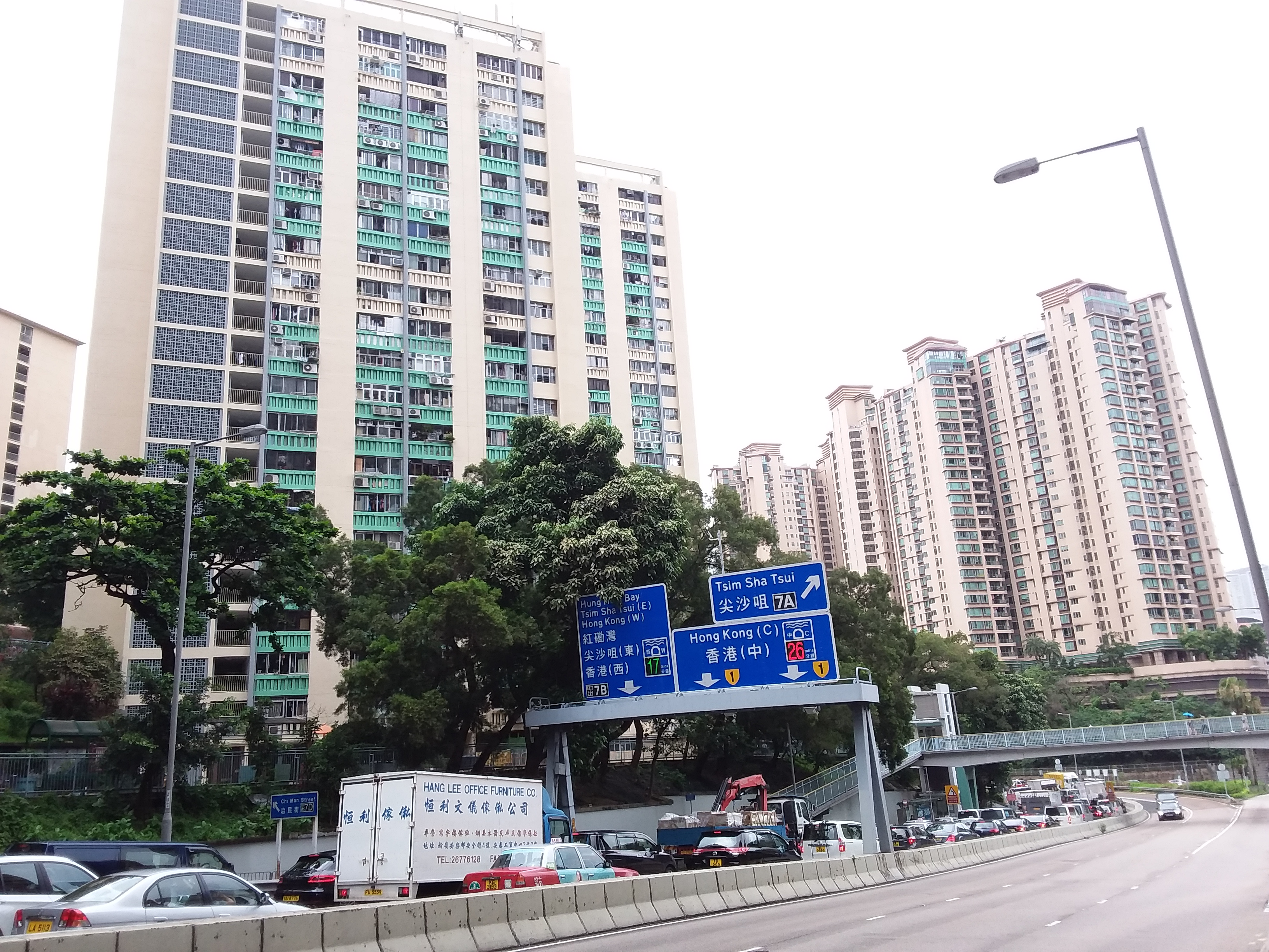 HK 九龍城 Kowloon City 何文田 Ho Man Tin 公主道 Princess Margaret Road in June 2019